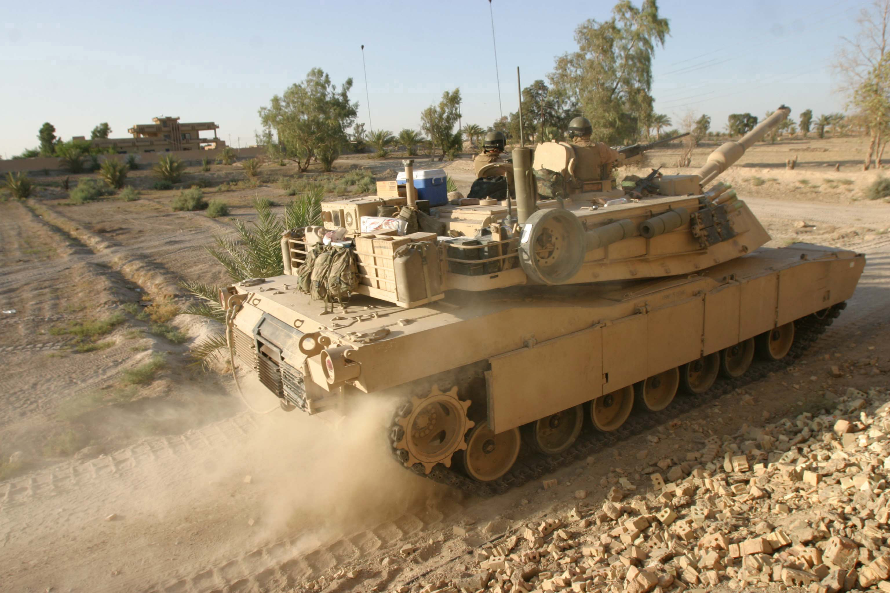 An M-1A1 Abrams tank kicks up dust as it moves into position during a mortar attack in Fallujah, Iraq, on Aug. 14, 2004. The 1st Marine Division is engaged in security and stabilization operations in the Al Anbar Province of Iraq.